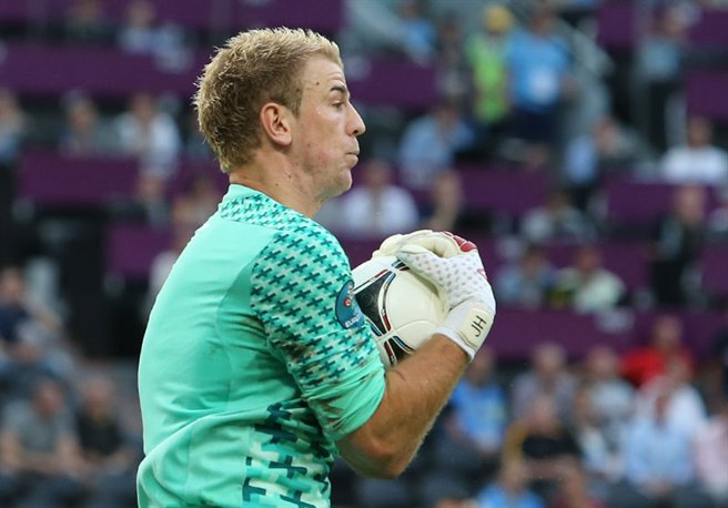 UEFA Euro 2012 match between France and England played in Donetsk at Donbas Arena. Final result was 1:1 (Nasri, Lescott).